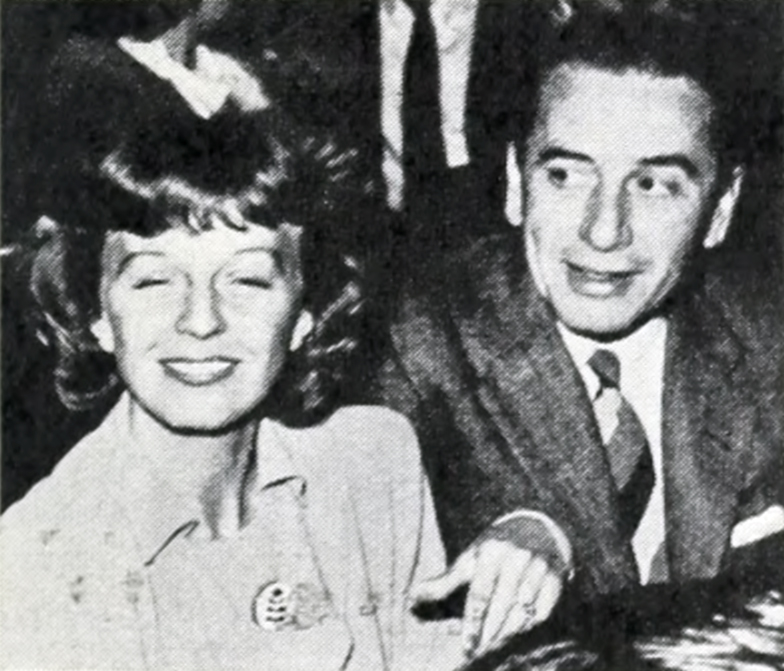 Photograph of Margaret Sullavan and Leland Hayward